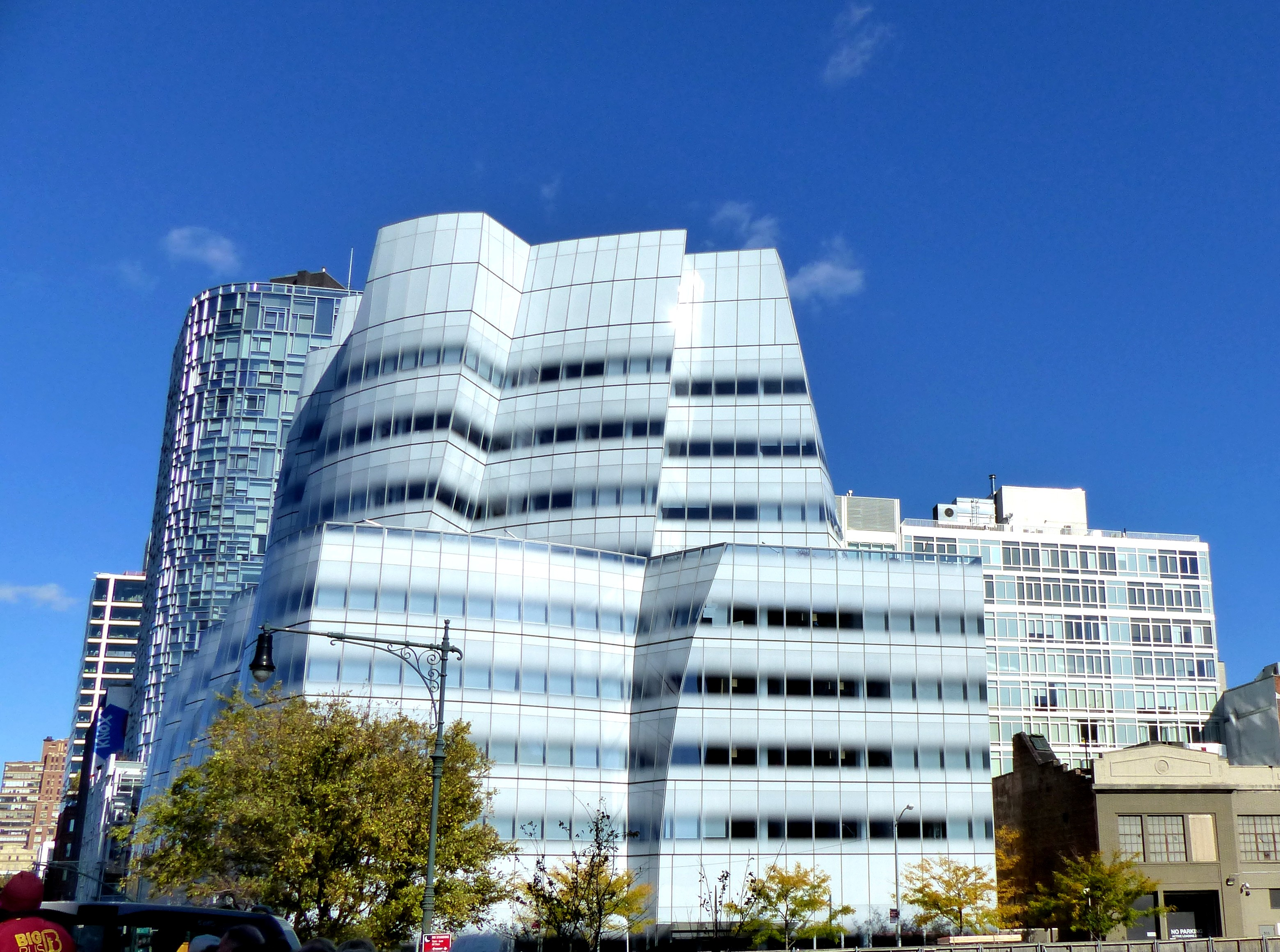 NYC - IAC Building